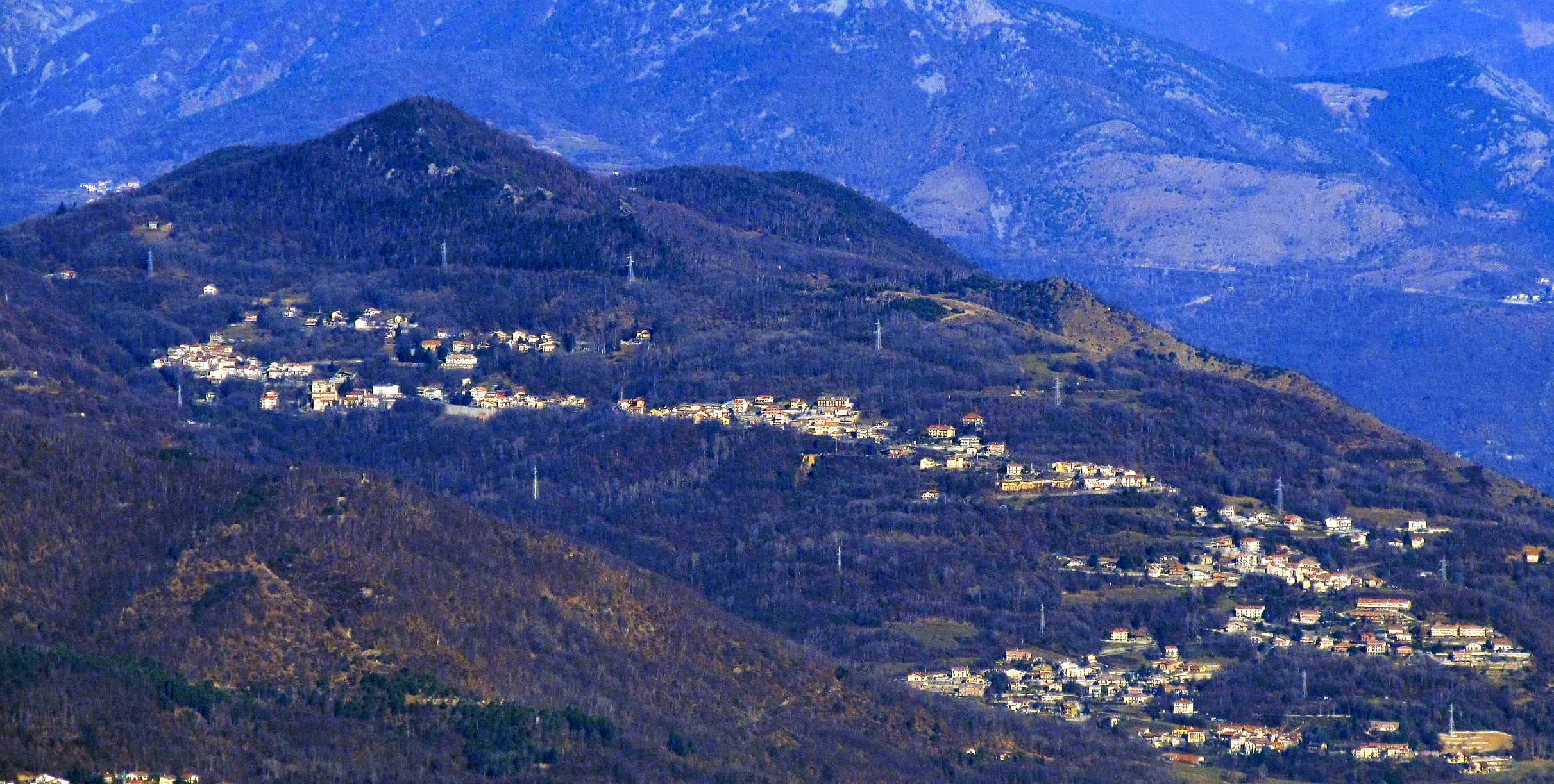 Valgioie (TO, Italy) seen from Monte Brunello; in the background Monte Ciabergia